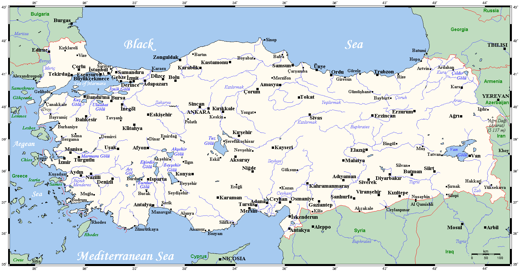 A map showing Turkey's cities and main towns.